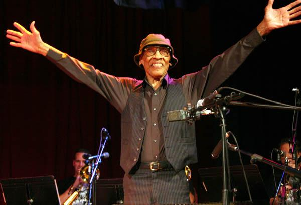 Sam Rivers